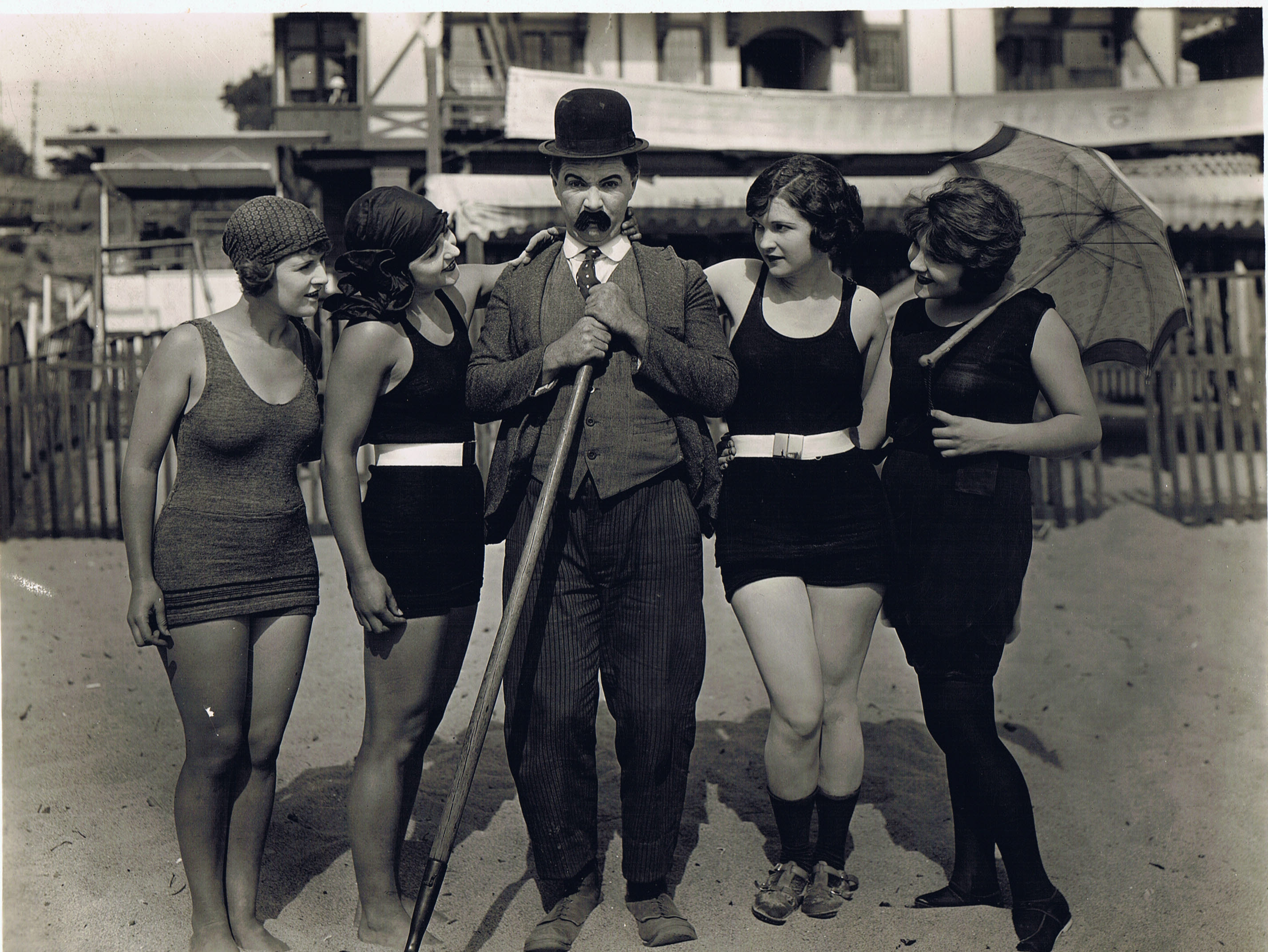 Publicity still of Billy Bevan and Mack Sennett bathing beauties